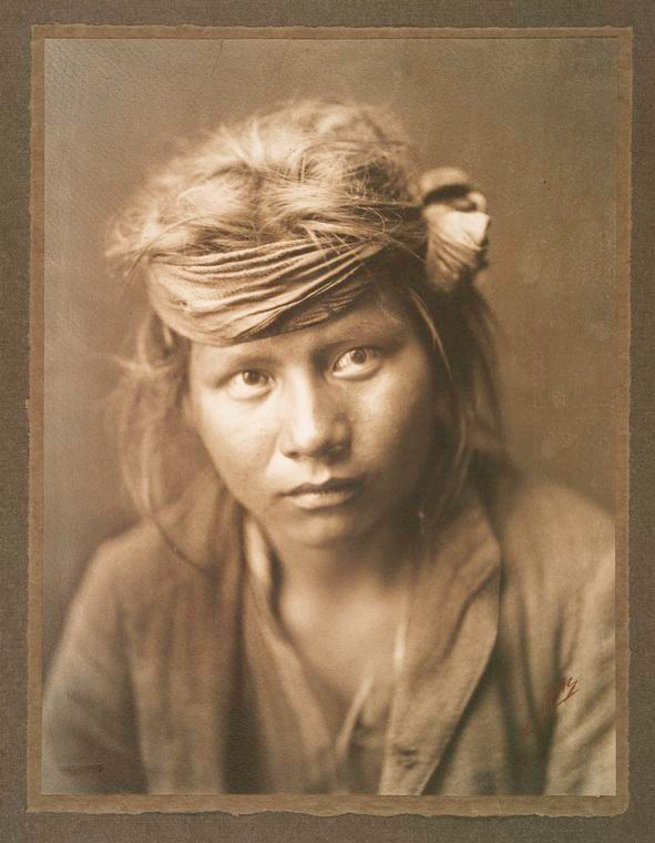 Content: Same image as "Son of the desert, Navaho" in Edward S. Curtis The North American Indian, vol. I : the Apache, the Jicarillas, the Navaho [portfolio] ; plate no. 32. Content: No. 182. Content: Exh 1992: Four Hundred Years of Native-American Portraits #93 NYPL catalog ID (B-number): b14311856 Universal Unique Identifier (UUID): 28def910-c6cf-012f-1971-58d385a7bc34